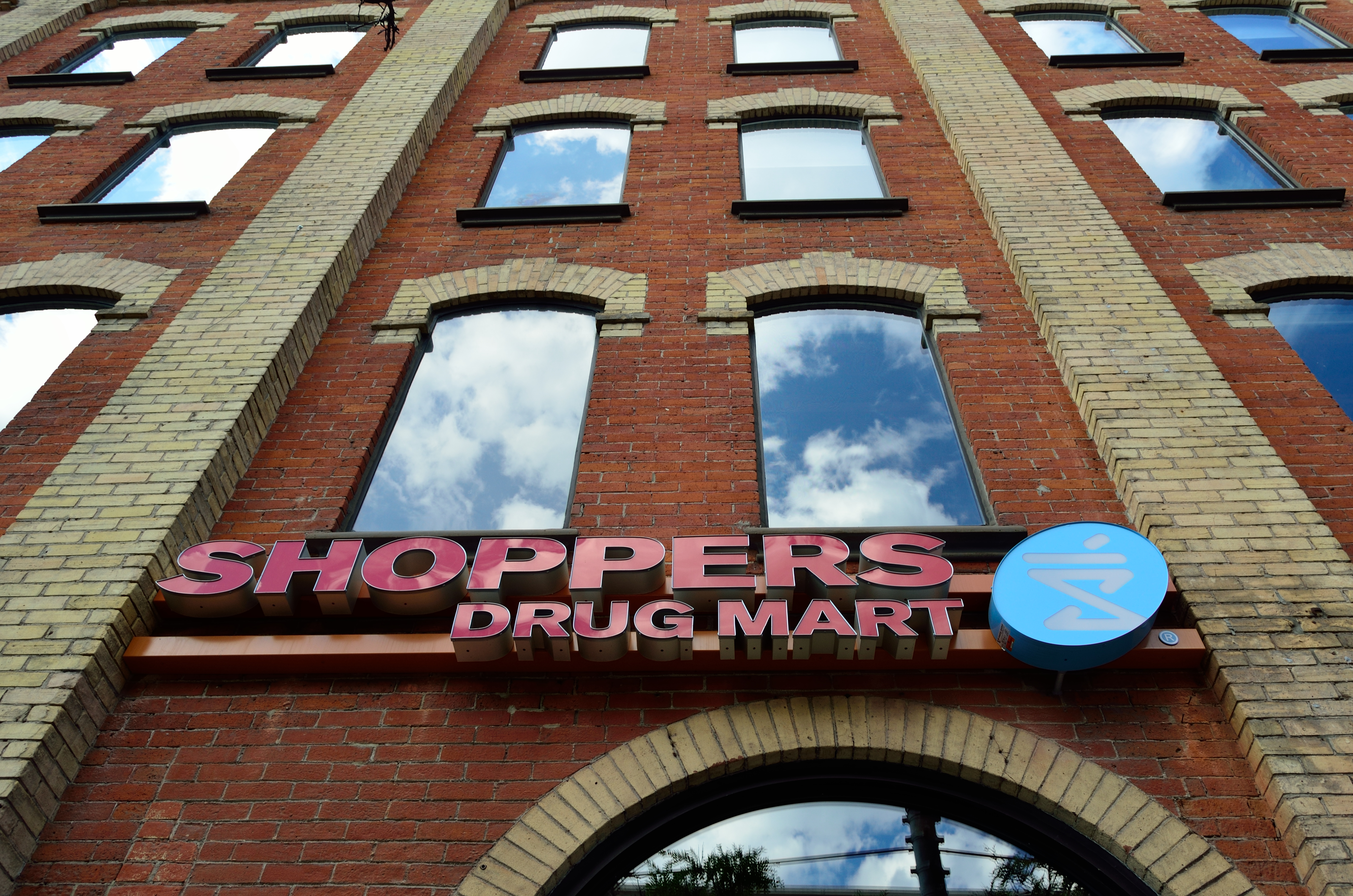 Shoppers Drug Mart at King Street West & Spadina